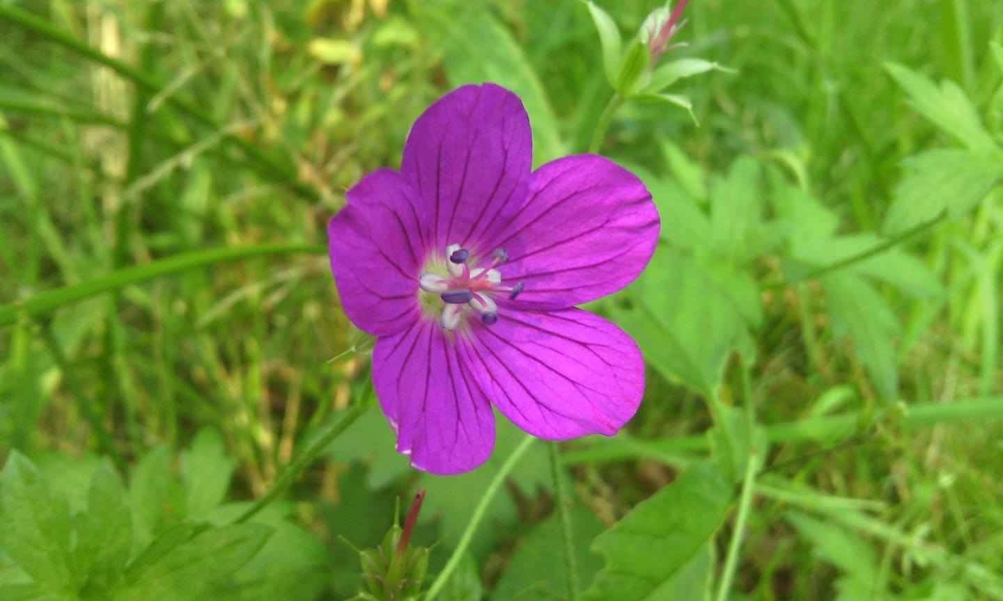 Geranium palustre